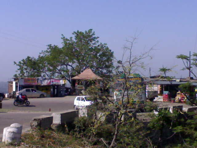 Chaat wala mod, Thaneek Pura